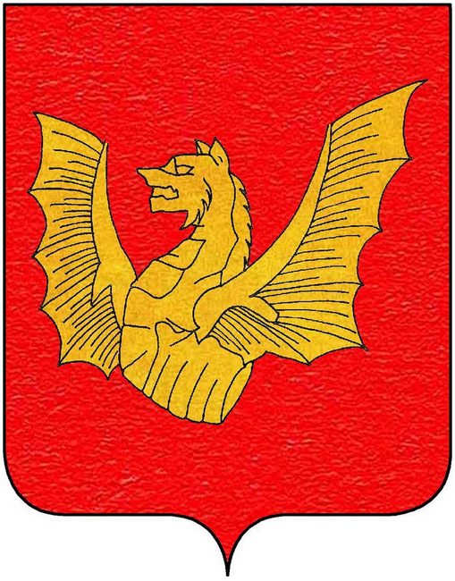 Coa fam ITA boncompagni2